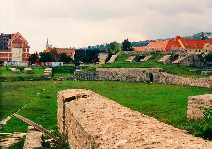 Aquincum Amphitheatre